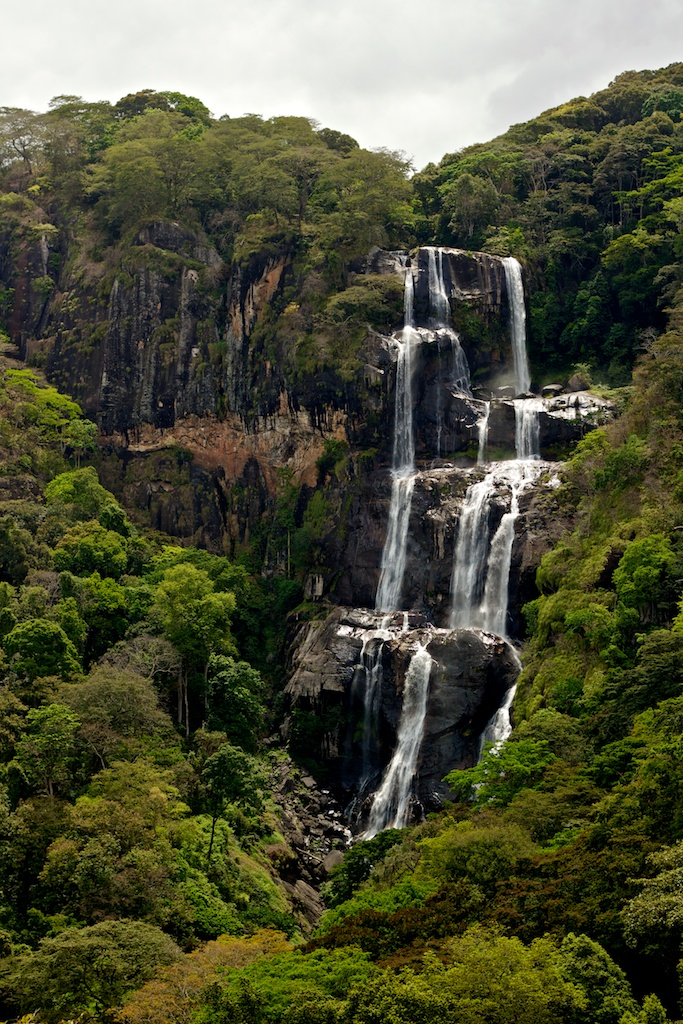 The third stage of Sanje falls is nearly 600ft high. From here, we hiked down to the base of the falls and up to the top. This is in Udzungwa Mountain National Park.